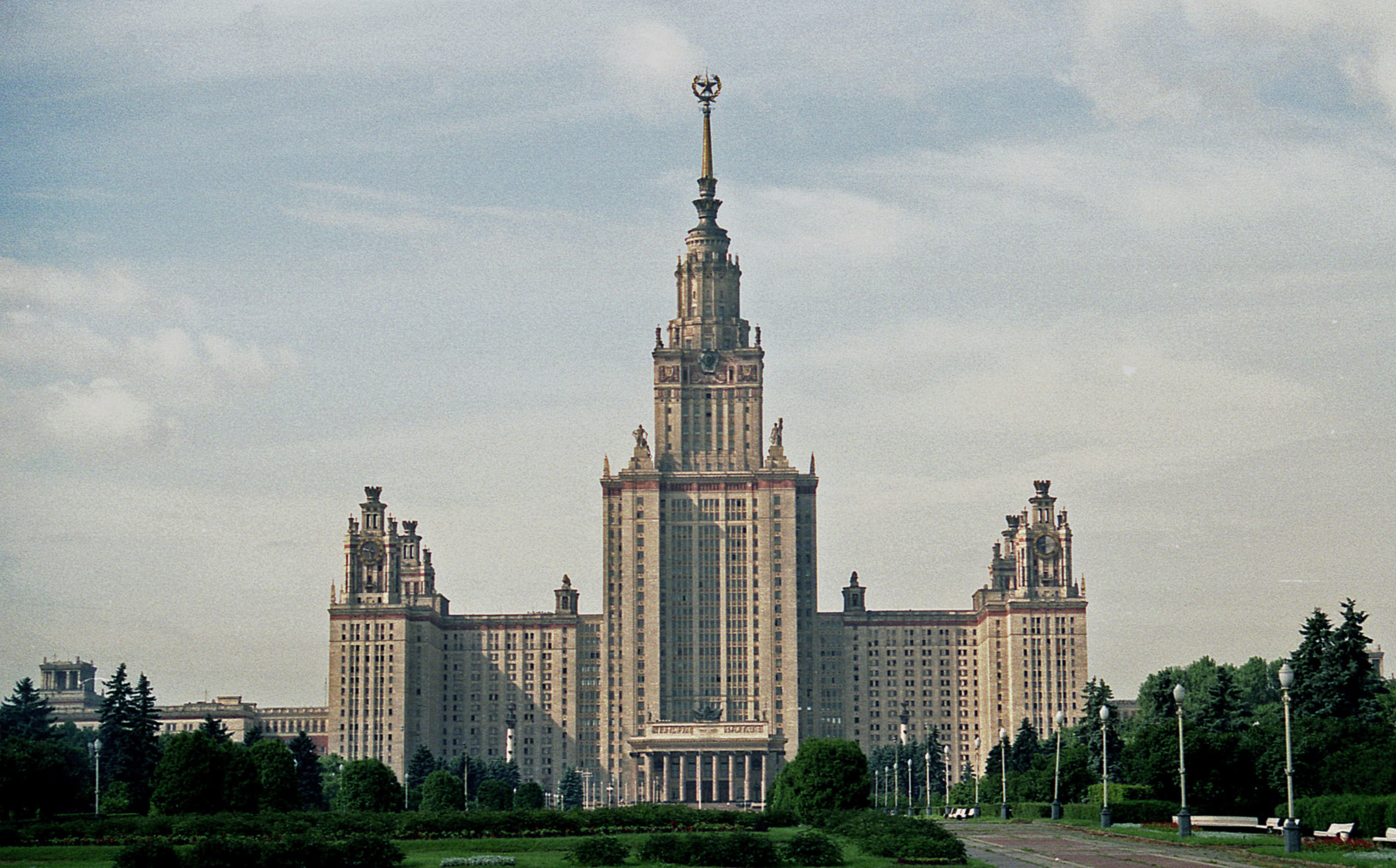 University Limonossow of Moscow